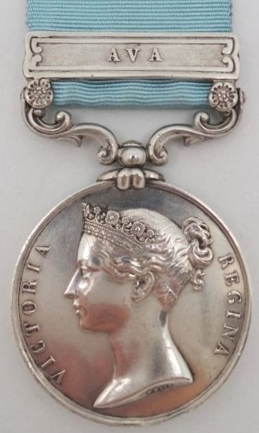 British / Honourable East Inia Company campaign medal for campaigns between 1799 - 1826.